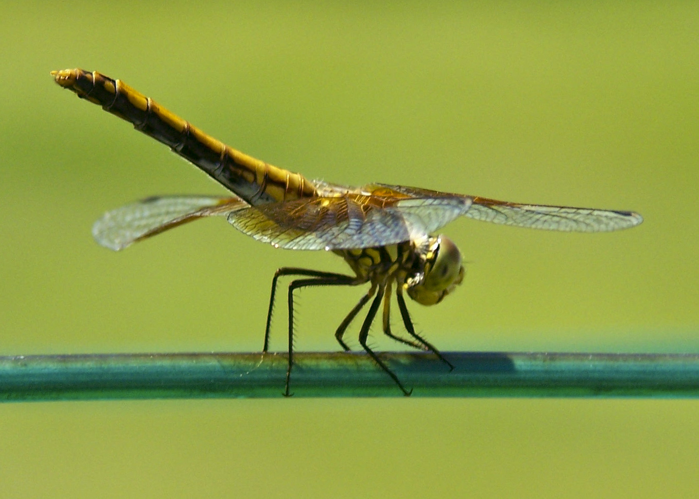 Western Meadowhawk, Sympetrum occidentale, in southeastern North Dakota